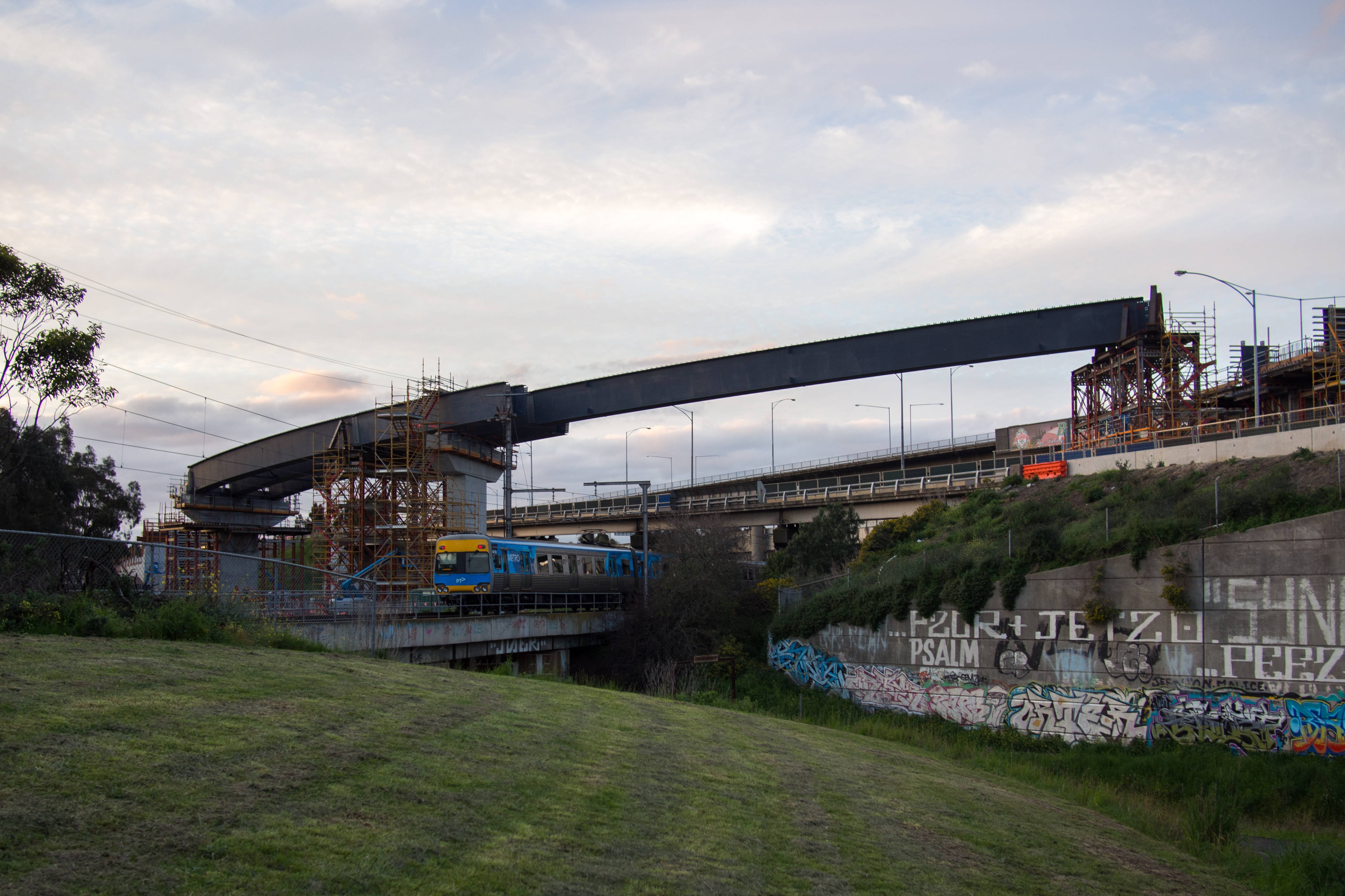 New ramp under construction at Bell Street as part of the Citylink widening project, October 2016. A Craigieburn-bound Comeng train is visible.